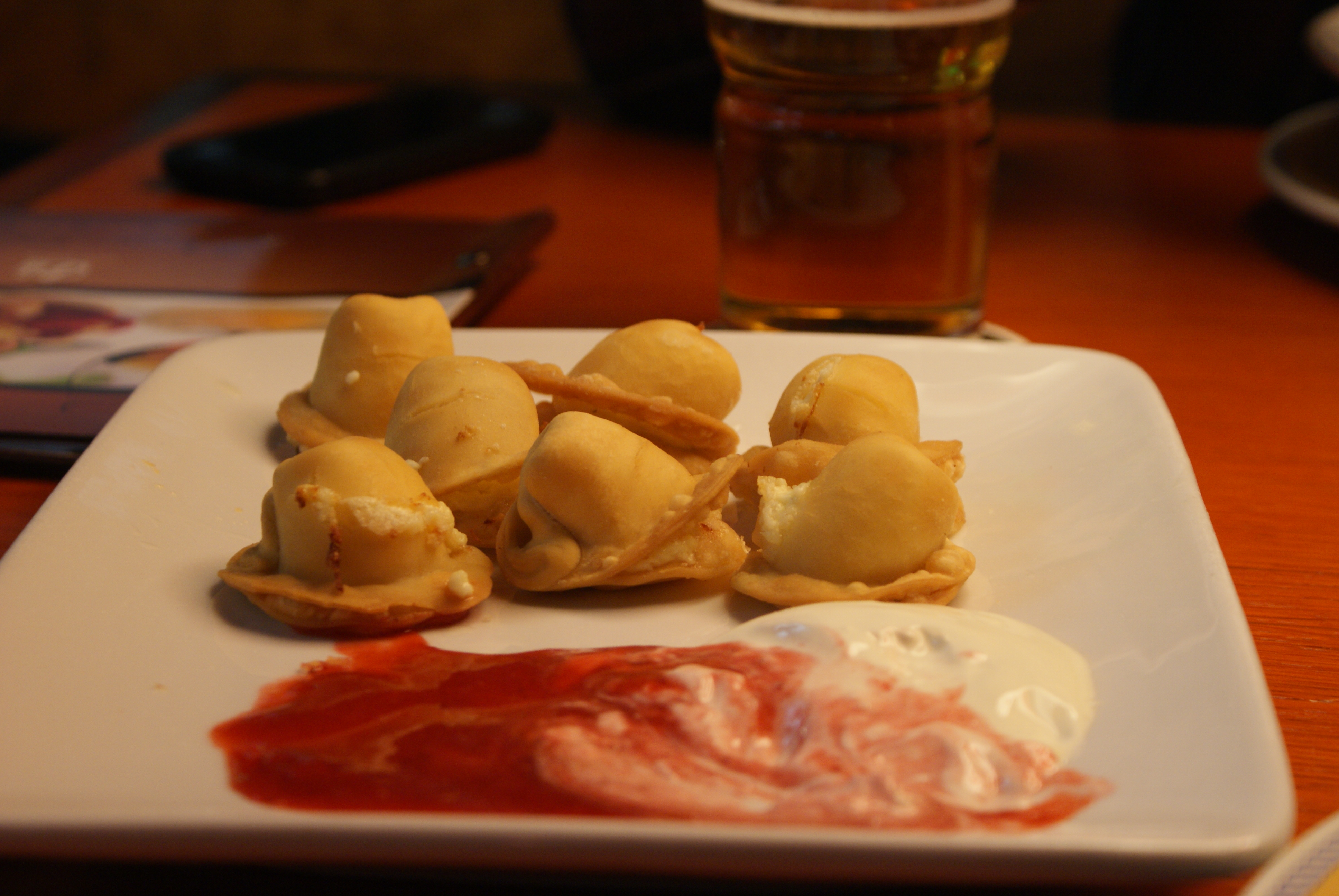 Kalduny